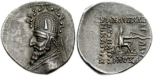 Coin of the Parthian king Sinatrukes